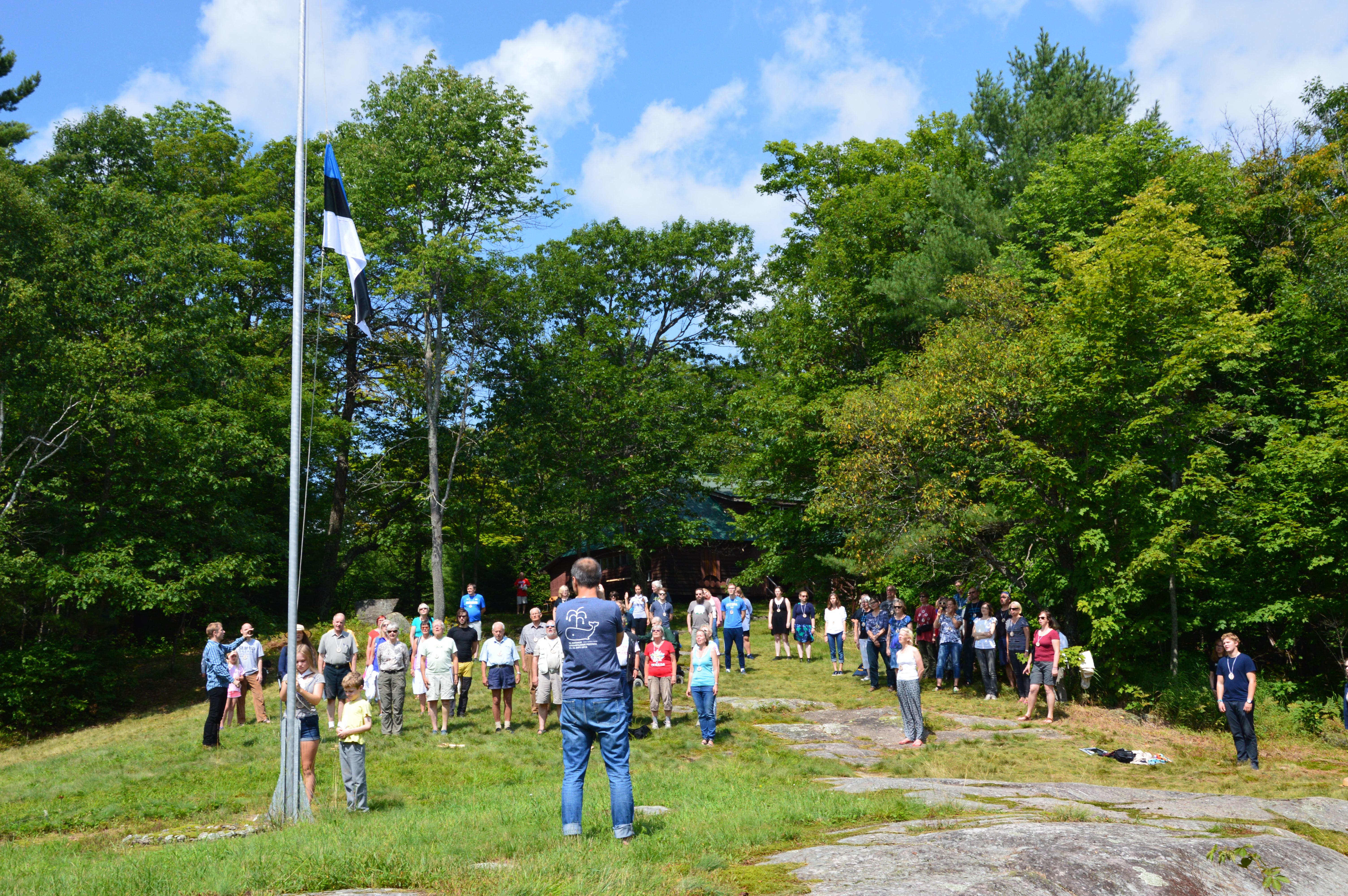 Hoisting the Estonian flag at Kotkajärve Forest University in Canada